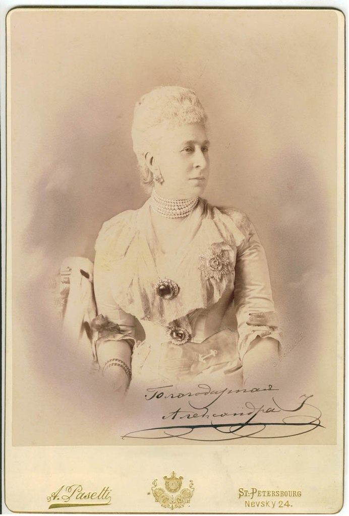 Grand Duchess Alexandra Iosifovna of Russia